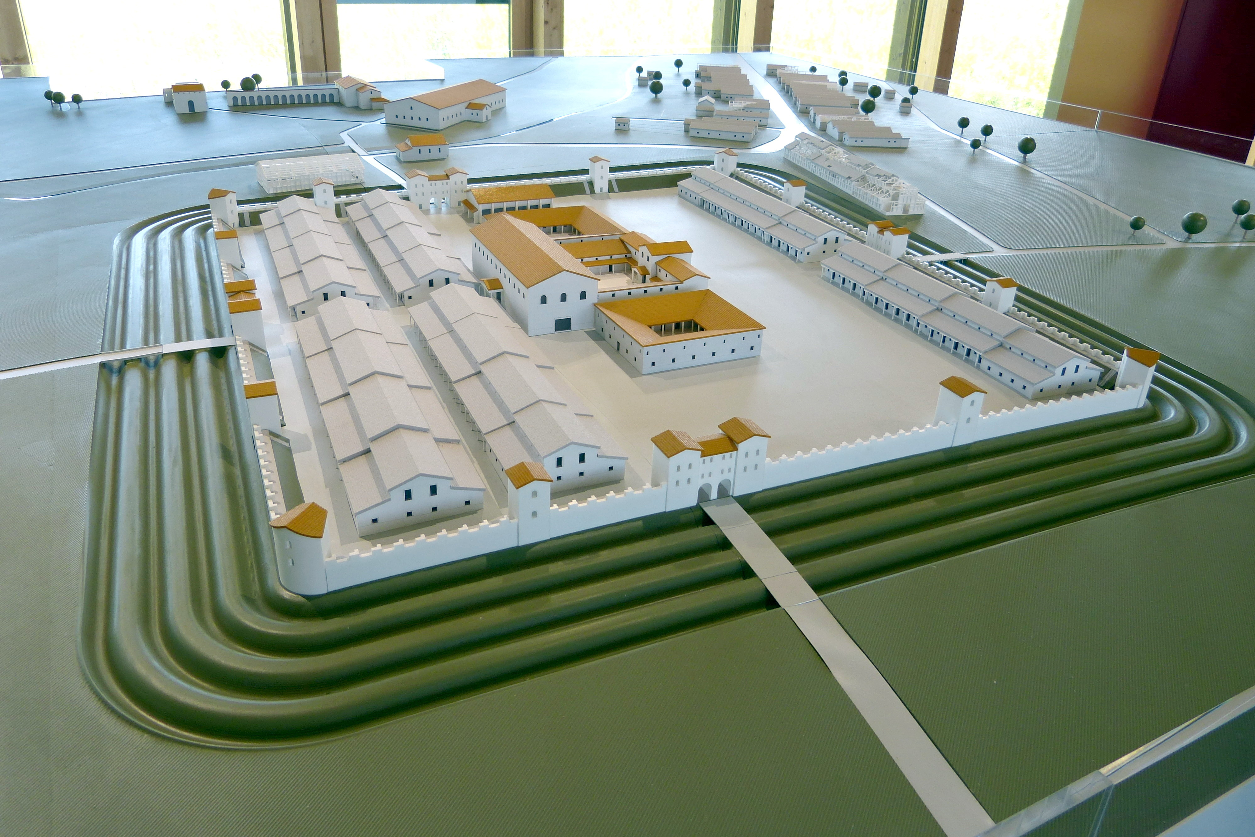 Weiltingen ( Bavaria ). Archaeological park Ruffenhofen: Limeseum - Model of the ancient Roman fort at Ruffenhofen.